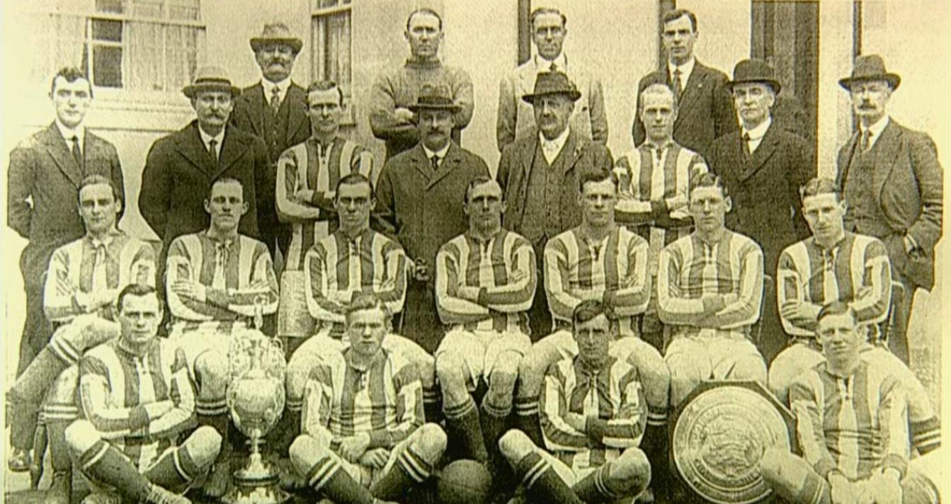 The West Bromwich Albion F.C. team of 1920 proudly display the 1919-20 League Championship trophy and the 1920 Charity Shield.